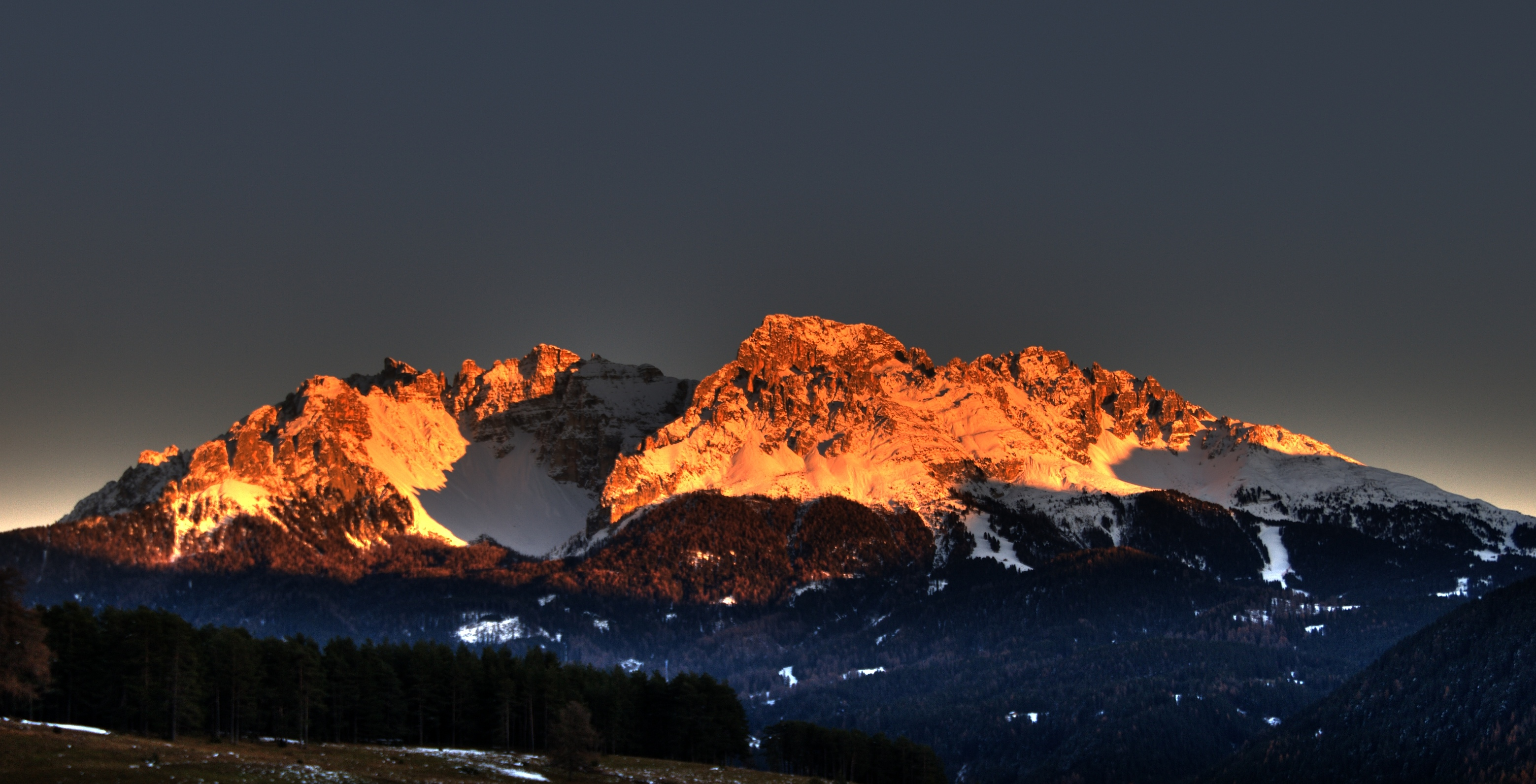 Alpenglow at Latemar, Dolomites. View from Schwarzenbach (Rio Nero), Deutschnofen (Nova Ponente).